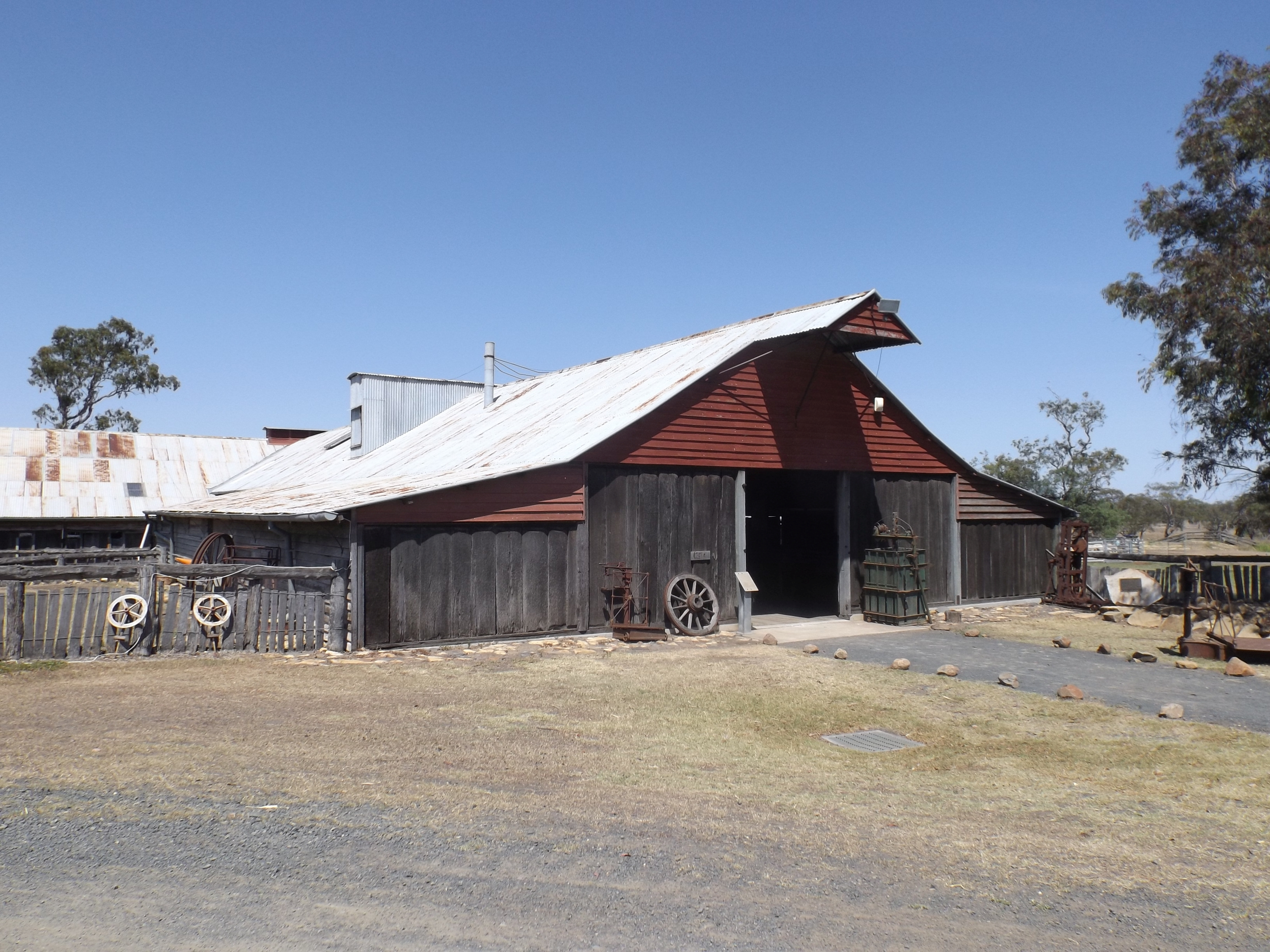 Photo of entrance to Jondaryn Woolshed at Jondaryan, Queensland, Australia.